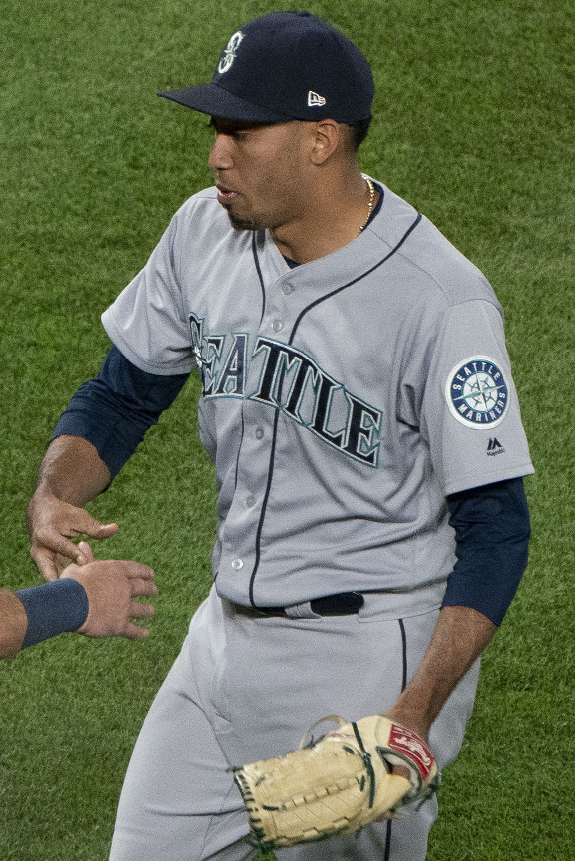 Mariners at Orioles 6/25/18